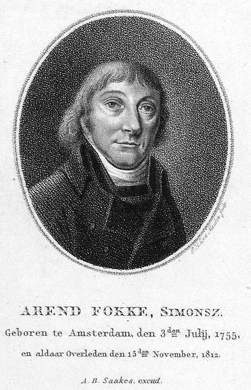 Arend Fokke Simonsz (1755-1812) was a dutch author.